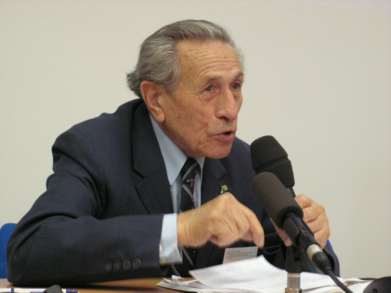 Adolf Burger on a Holocaust confererence in Prague in 2006